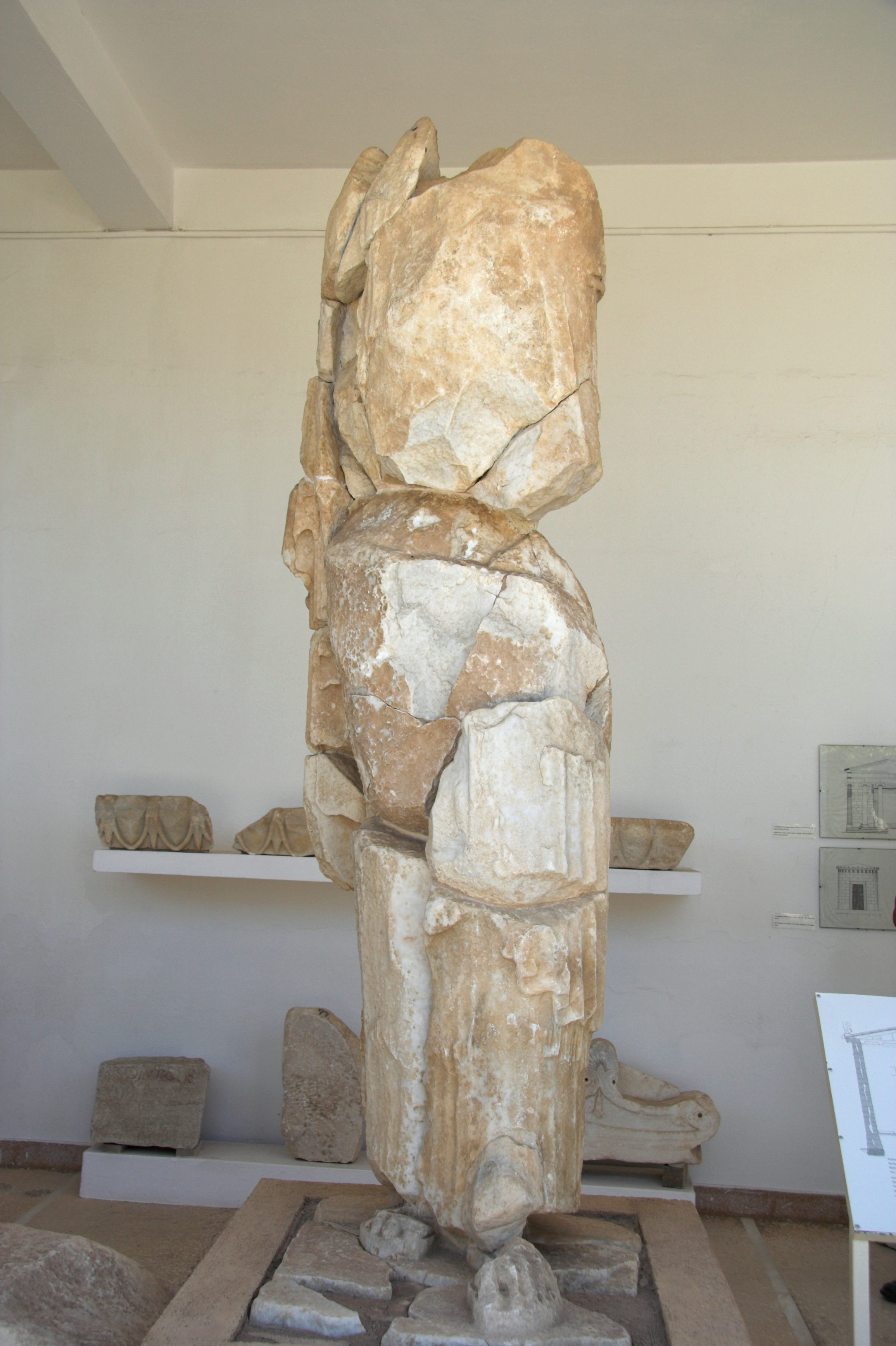 Fragments of larger marble sculpture in the lapidary: Artemis (2.74 m high, with plinth even 3.10 meters) from the 490-480 BC stood next to the Temple of Apollo in Delion on Paros. Archaeological museum of Paros.